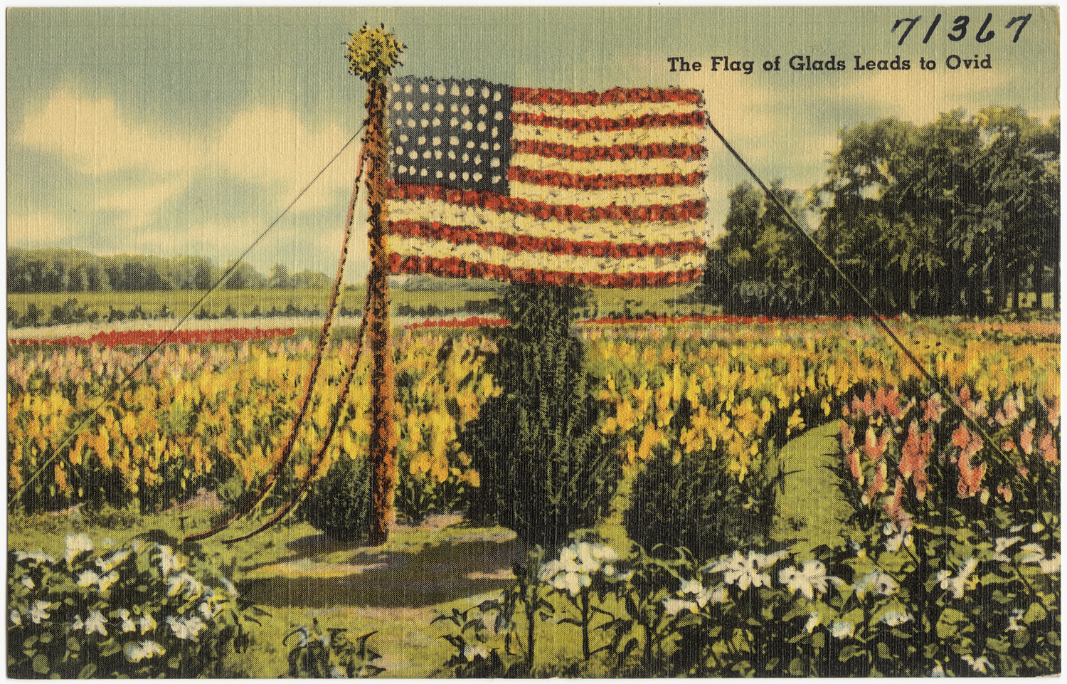 File name: 06_10_014904 Title: The flag of Glads leads to Ovid, the Third Annual Gladiolus Festival will be held at Ovid August 30-31, and September 1, 1941. Visit the M. E. Church for the Flower Show. Date issued: 1930 - 1945 (approximate) Physical description: 1 print (postcard) : linen texture, color ; 3 1/2 x 5 1/2 in. Genre: Postcards Notes: Title from item. Collection: The Tichnor Brothers Collection Location: Boston Public Library, Print Department Rights: No known restrictions